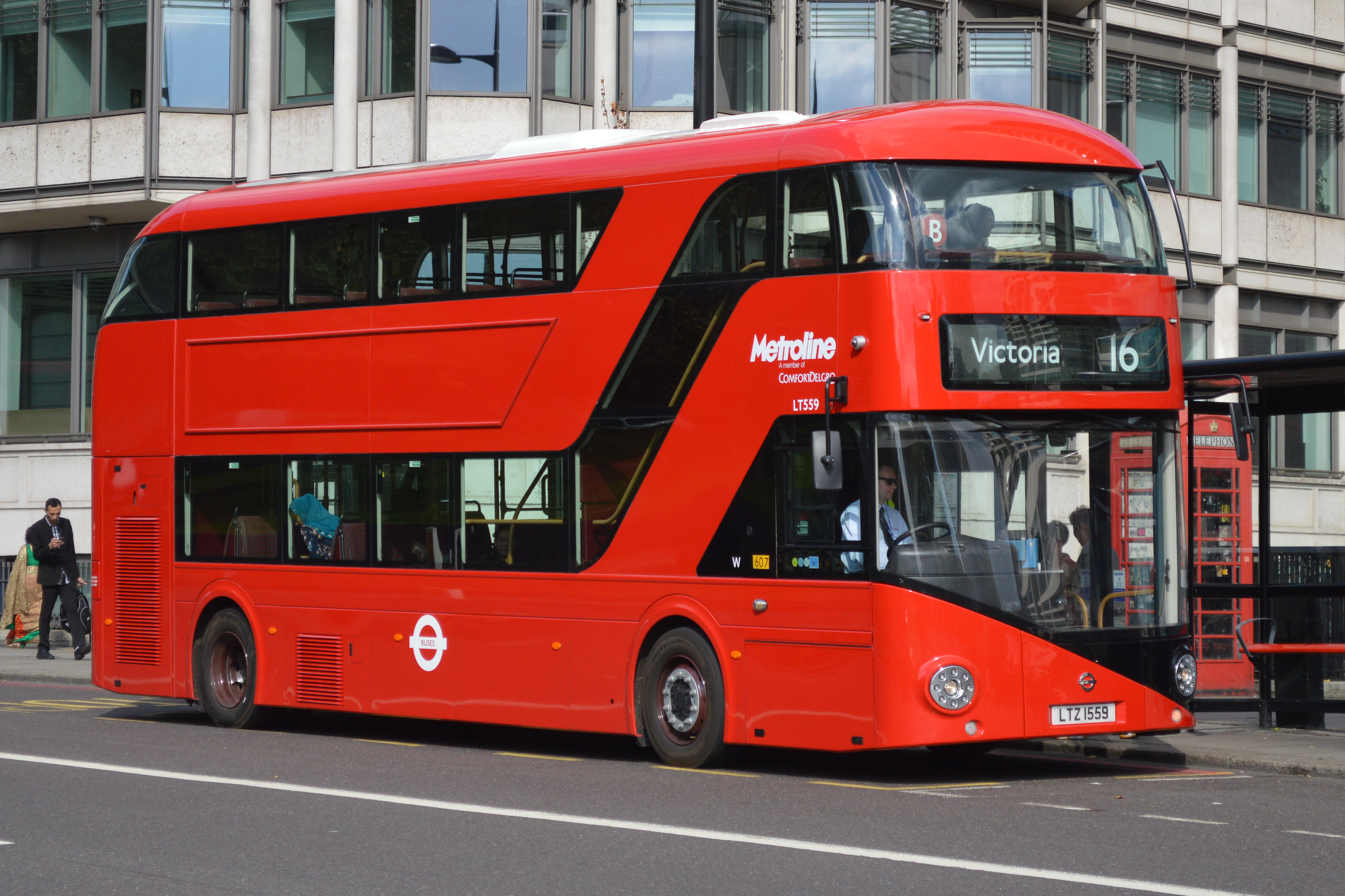 NEW - LT 559 (LTZ 1559) Metroline London New Routemaster is seen at the London Hilton Hotel on Park Lane on London route 16 to Victoria. This is on Saturday 26 September 2015.